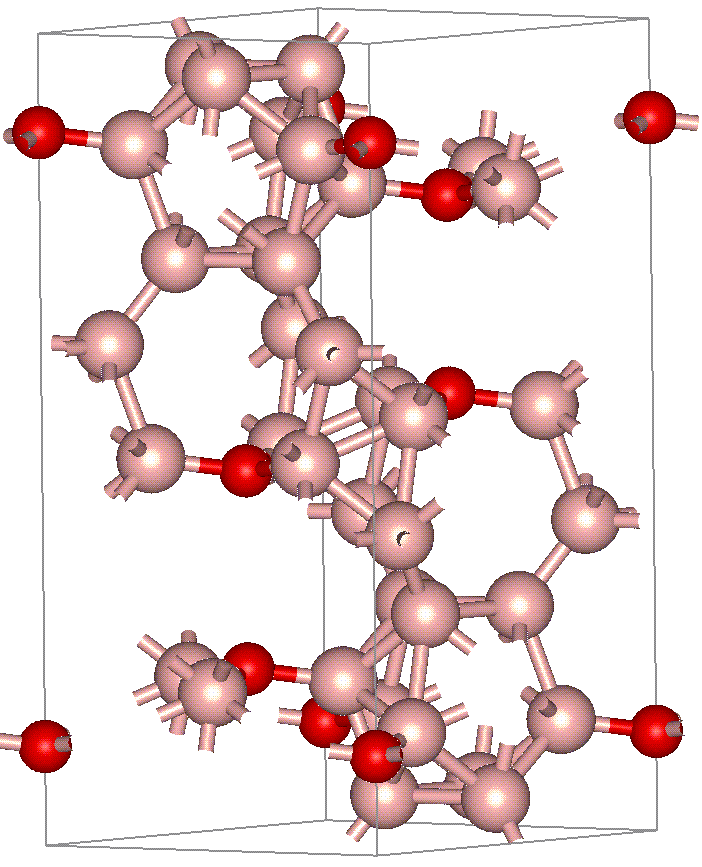 B6O structure, data from Journal = JOURNAL OF ALLOYS AND COMPOUNDS Year = 1997 Volume = 257 Page = 91-95 Title = Synthesis and structure of non-stoichiometric B6O Authors = Olofsson M., Lundström T. Experiment method: heated at 1723 K for 105 h, cooled to 773 K over 3-4 h, quenched; excess B2O3 removed with hot water Crucible:sealed boron nitride crucible in alumina tube Atmosphere: flowing argon